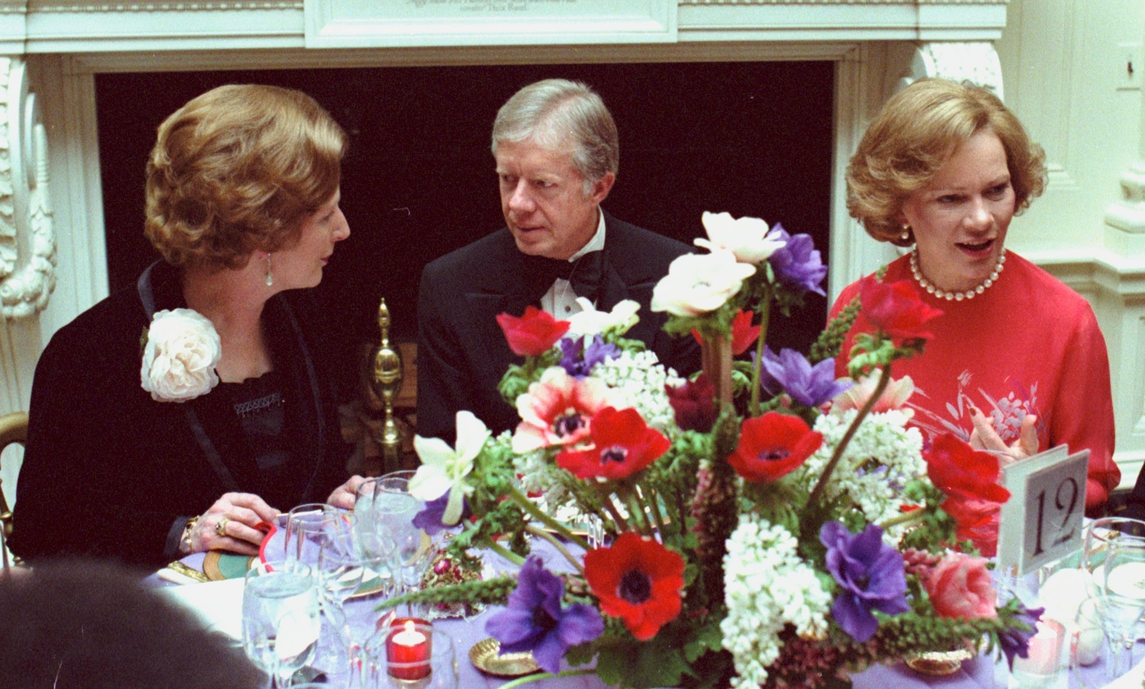 Margaret Thatcher with President Jimmy Carter and first lady Rosalynn Carter during a state dinner at the White House.